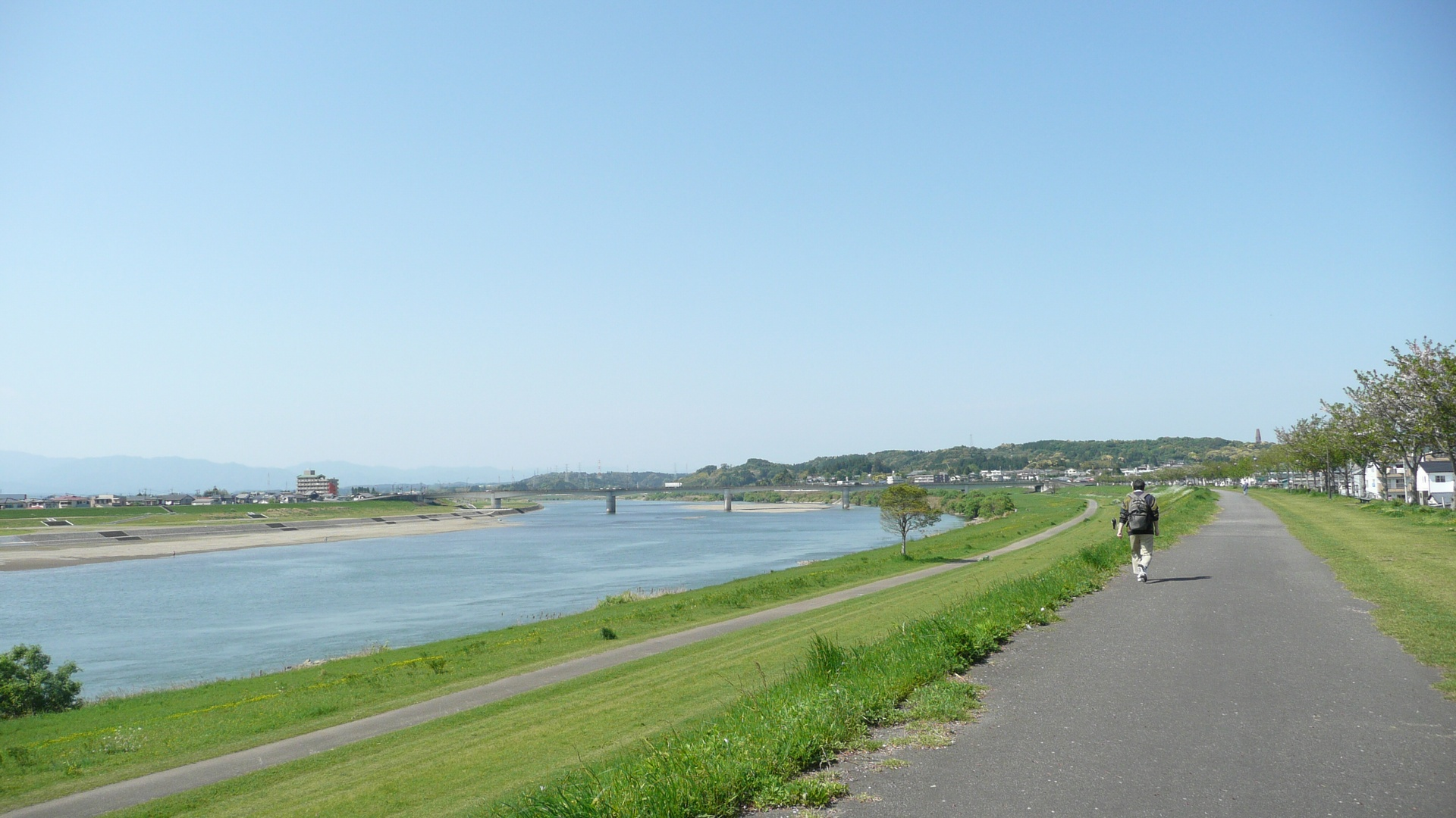 Ooyodogawa River (Gion, Miyazaki City, Japan)